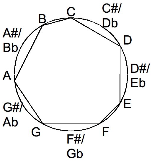 Major scale drawn in the chromatic circle.